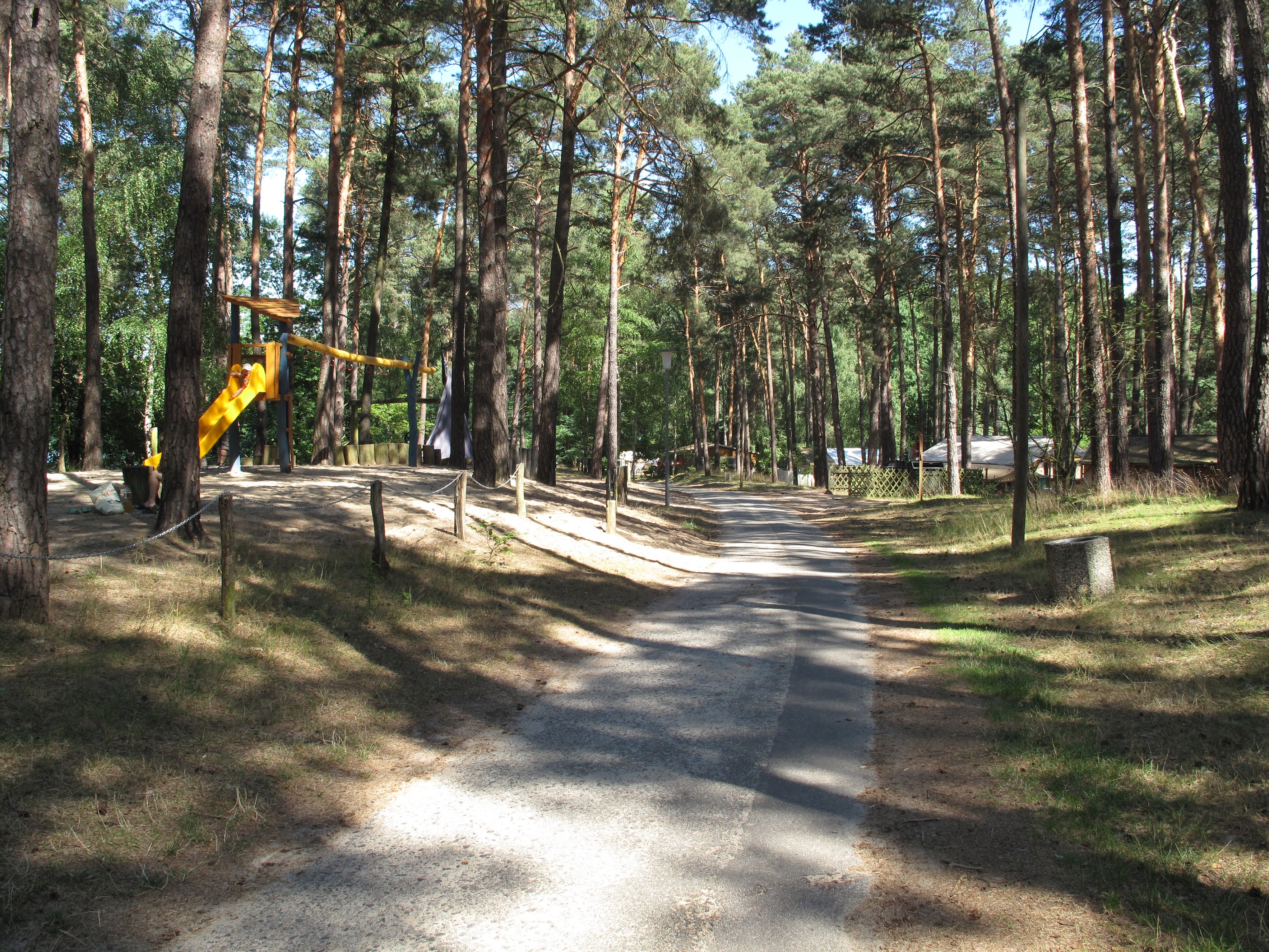 „Naturcampingplatz am Springsee“ (nature campsite), situated at the eastern and southern shore of the Springsee. The Springsee is a lake in Limsdorf, which is a part of the town Storkow, District Oder-Spree, Brandenburg, Germany. The lake covers about 57 hectare and has a depth of max. 20 meters. It is situated in the Dahme-Heideseen Nature Park.